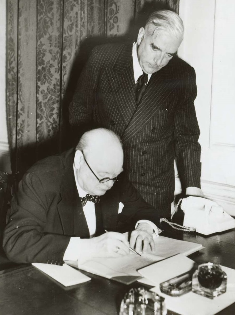 Prime Minister of Australia Sir Robert Menzies and Prime Minister of the United Kingdom Sir Winston Churchill at 10 Downing Street during World War Two in 1941.